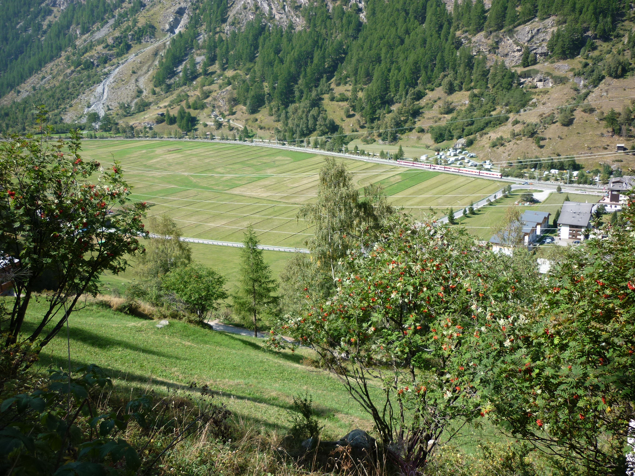 Wässerwiesen, Täsch VS, Schweiz